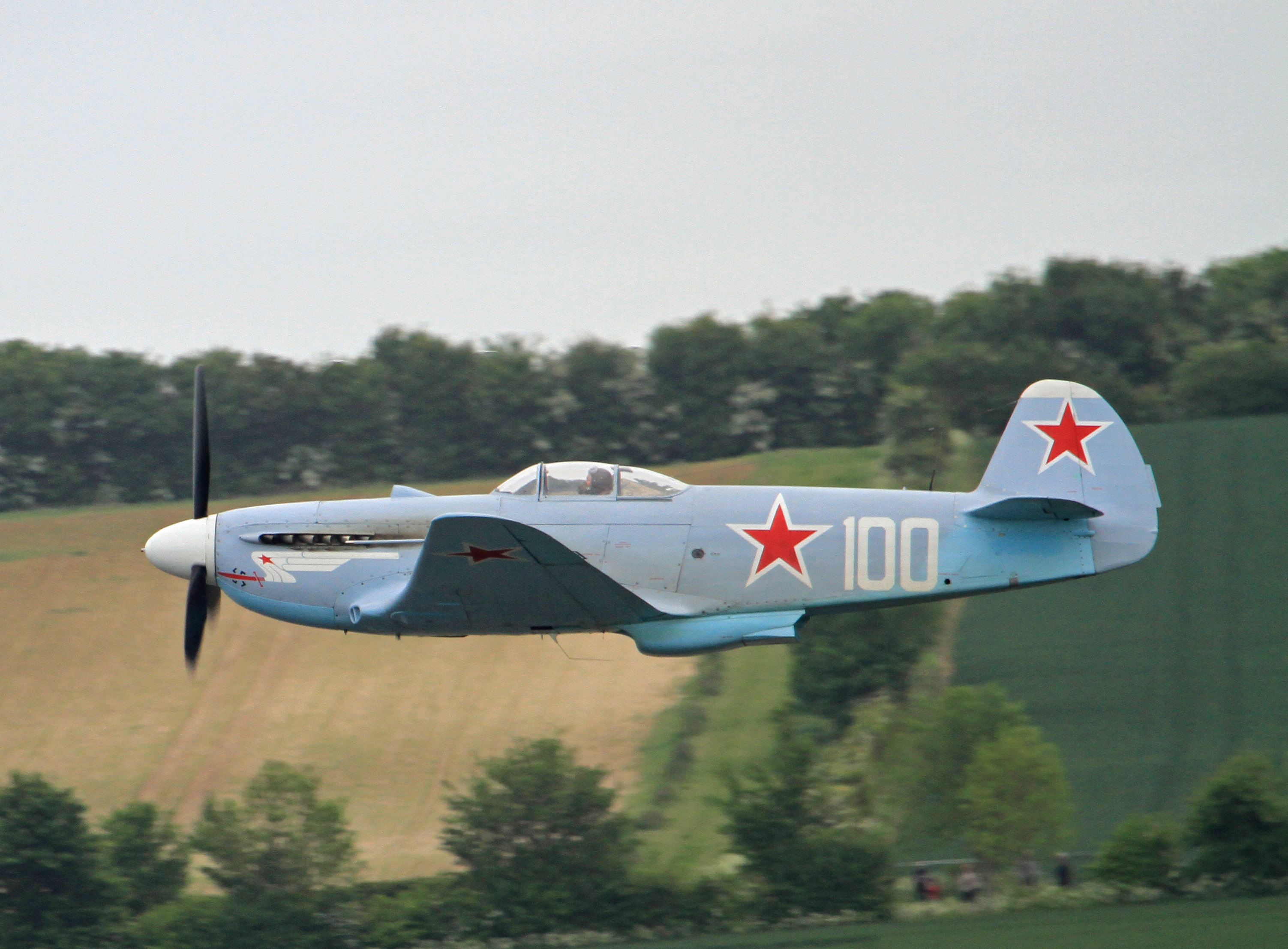 Yak 3 low pass Ve anniversary air show duxford 23-05-2015